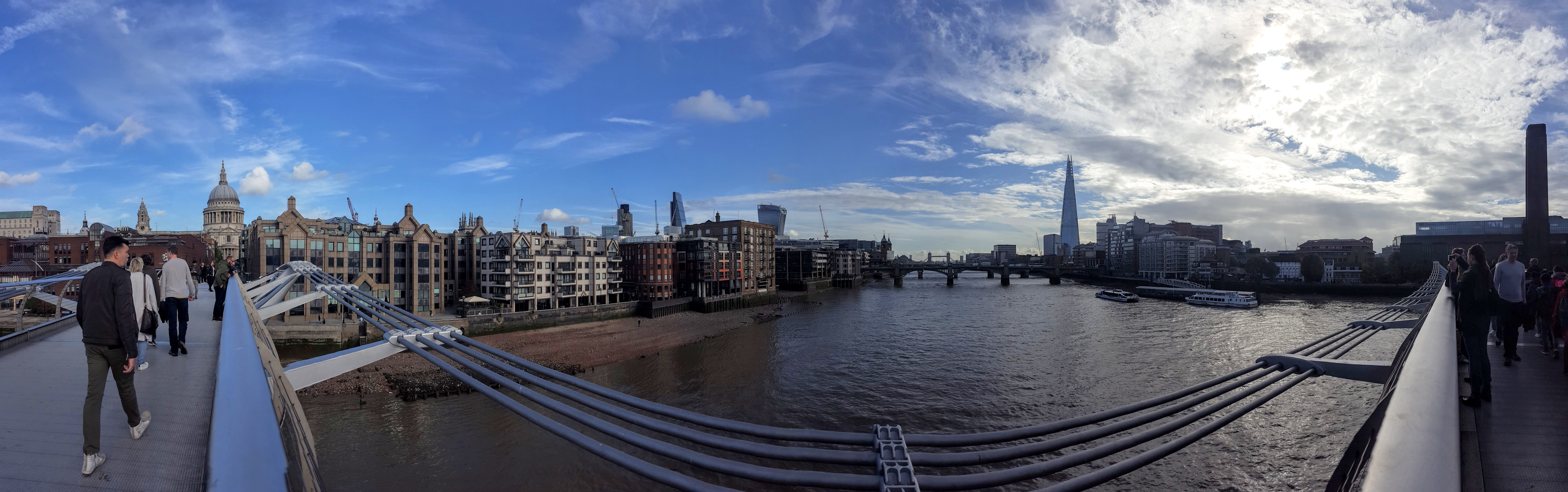 The view from Millennium Bridge looking east, showing the Leadenhall building, 20 Fenchurch Street, London Bridge, Tower Bridge and The Shard.